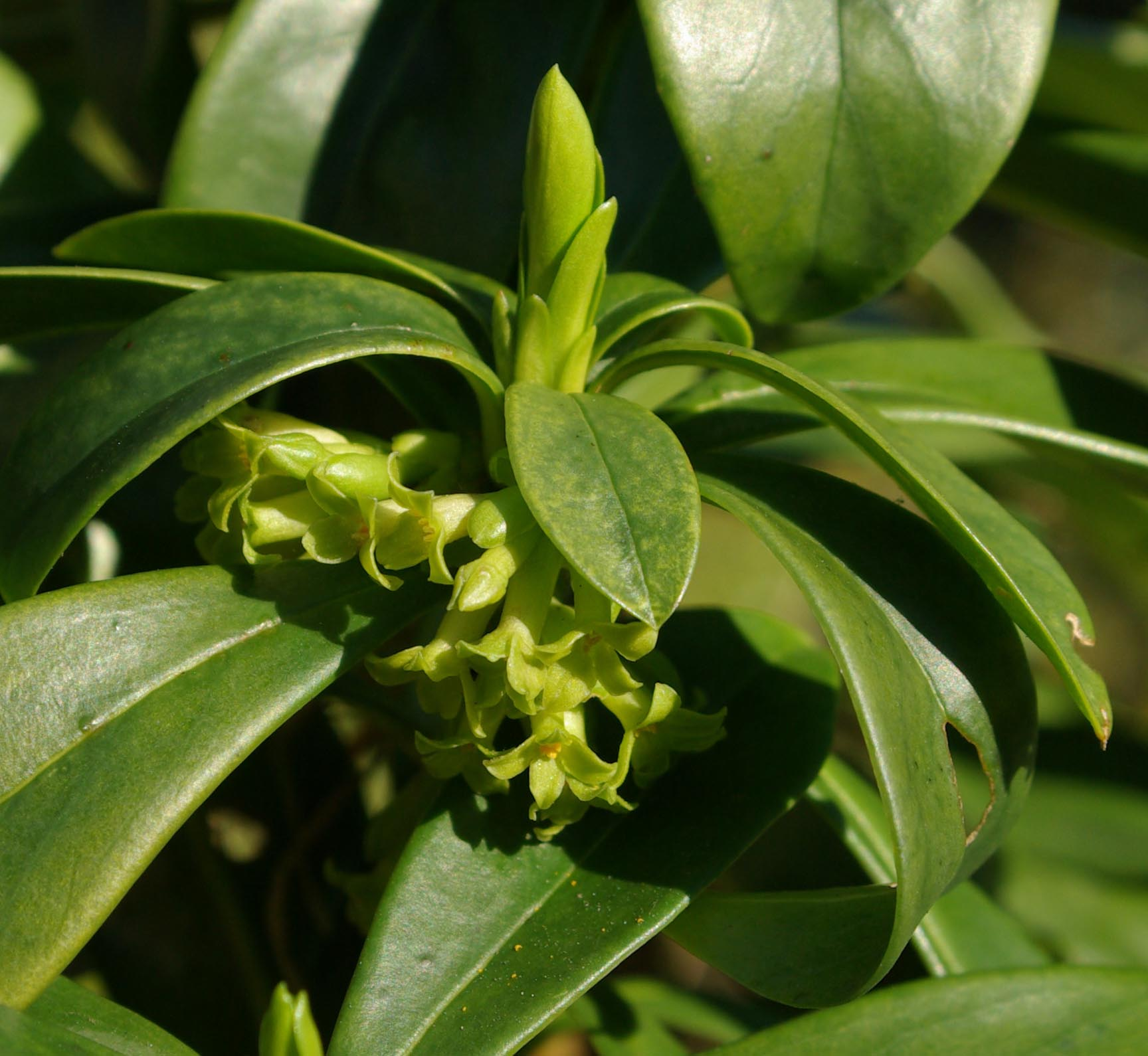 Daphne laureola flowers